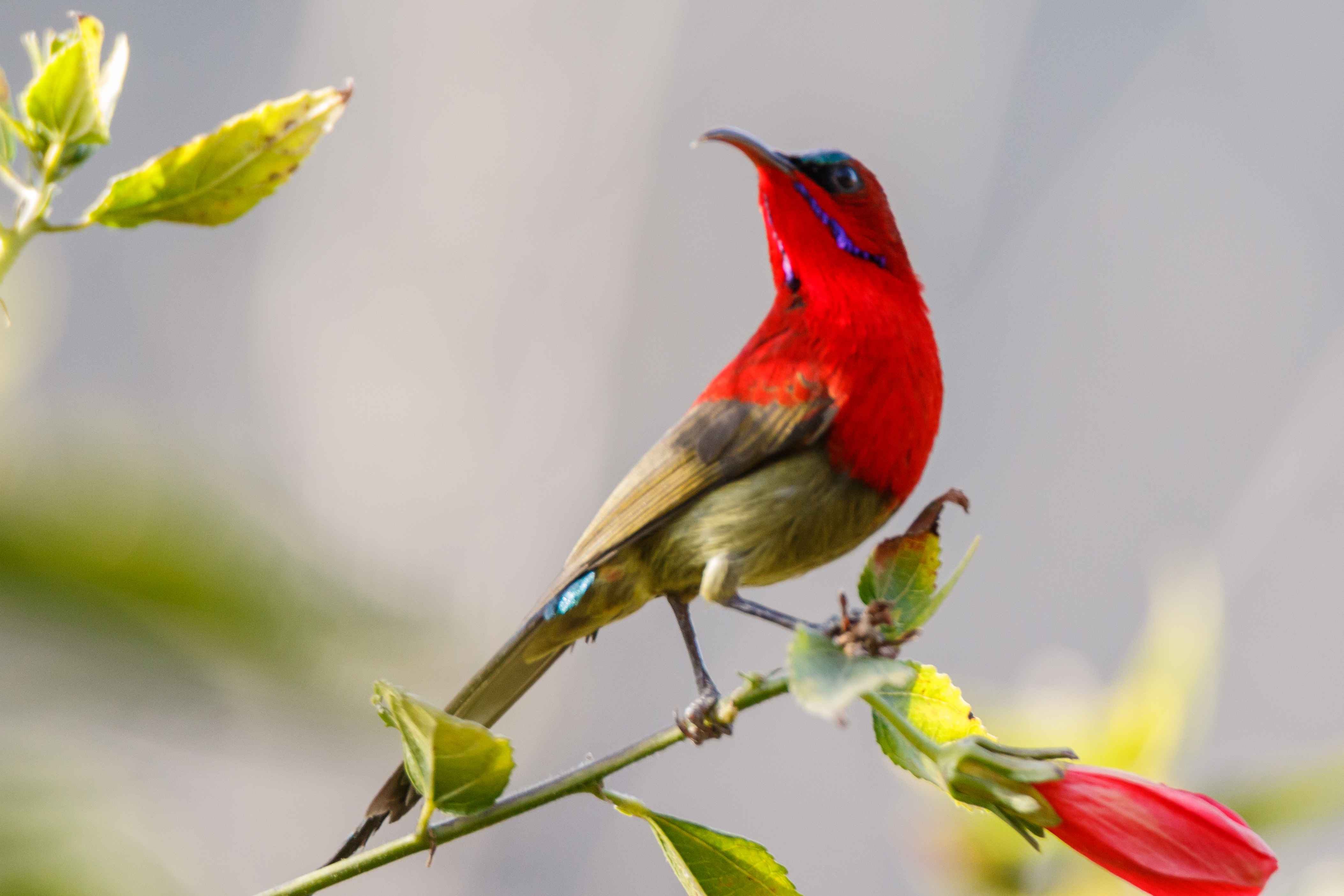 Crimson sunbird (Aethopyga siparaja).